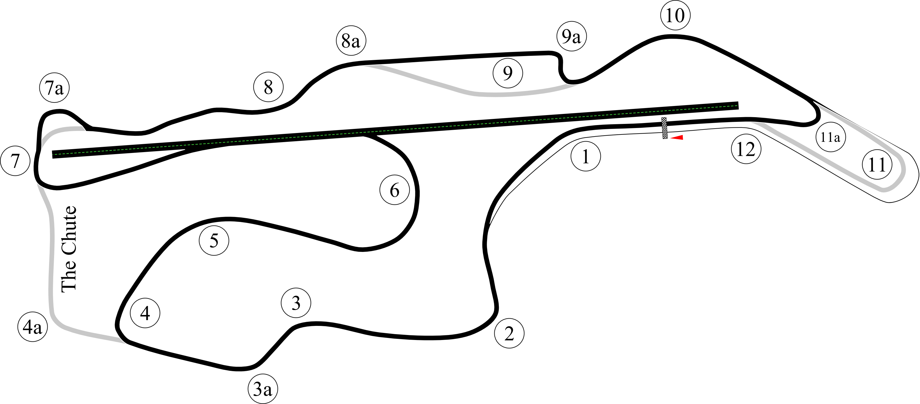 Track map for Infineon Raceway. The motorcycle & IRL configuration is emphasized in this image.